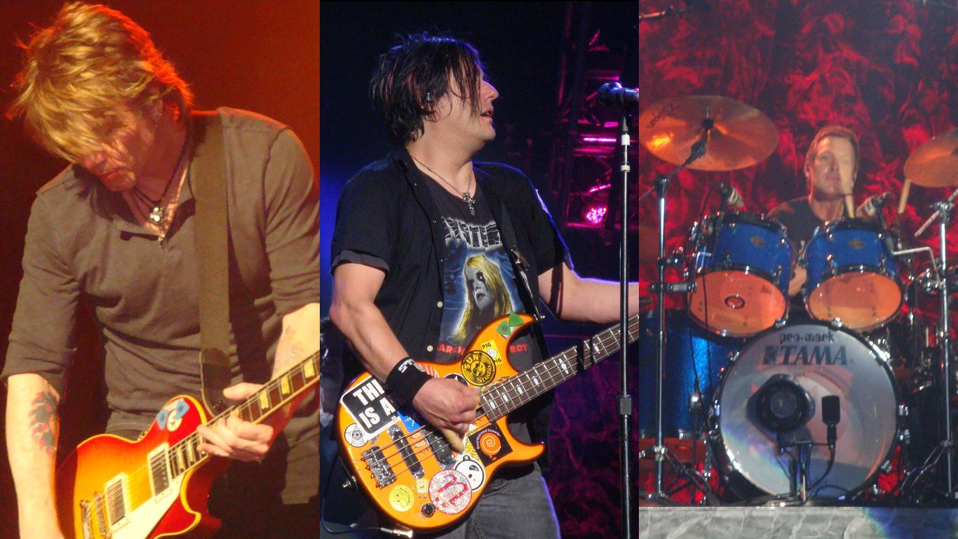 John Rzeznik (left), Robby Takac (center) and Mike Malinin (right) performing at the Molson Amphitheatre on July 25th, 2010.